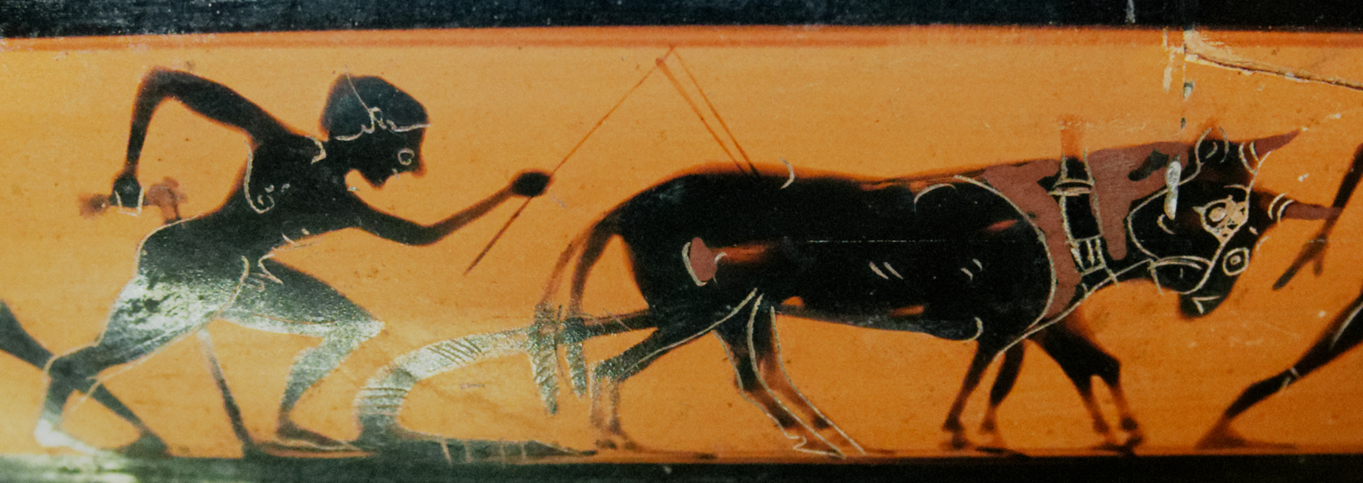 Ploughman, detail from a scene representing people working in the fields. Attic black-figure band-cup.